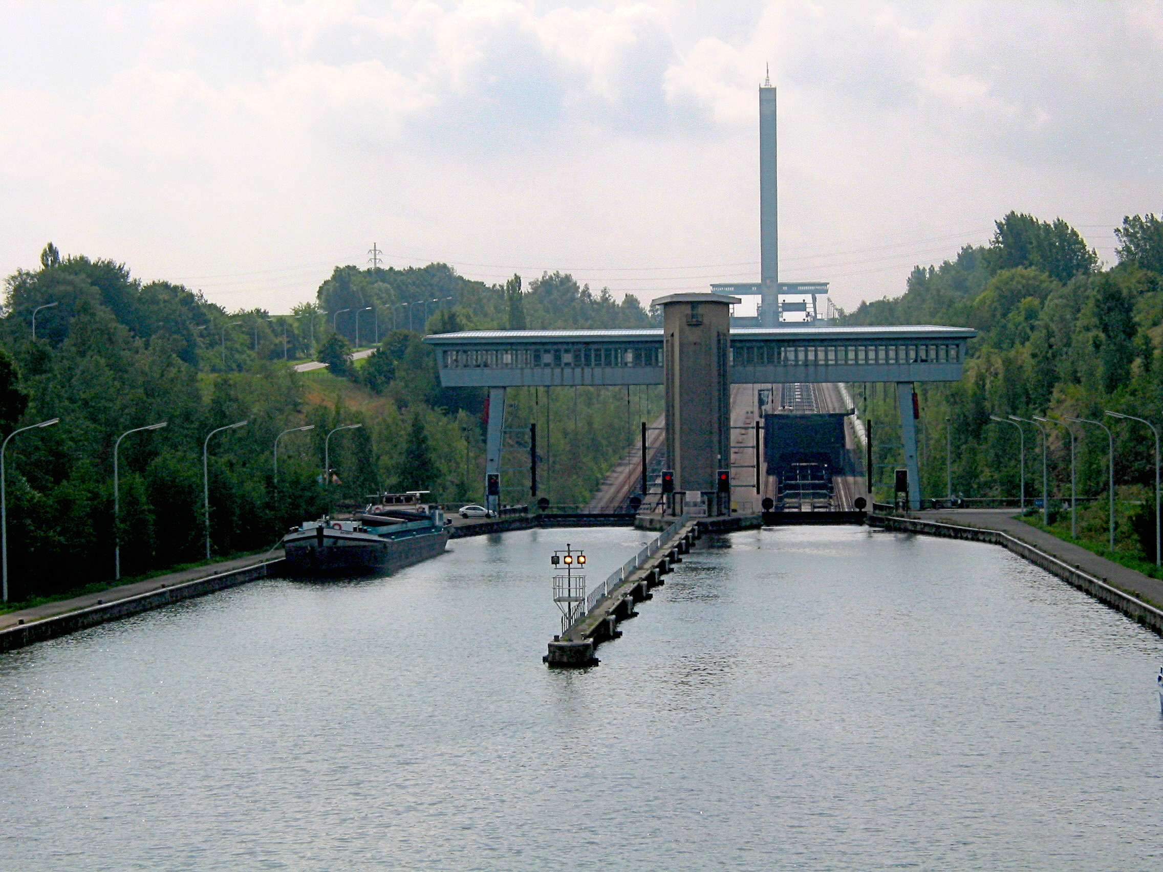 Ronquières (Belgium), control tower and engine room of the inclined plane (slope). .